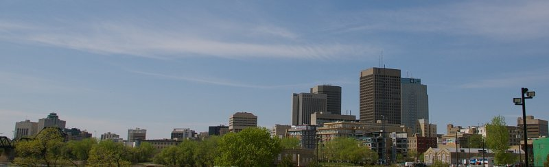 Skyline of Winnipeg